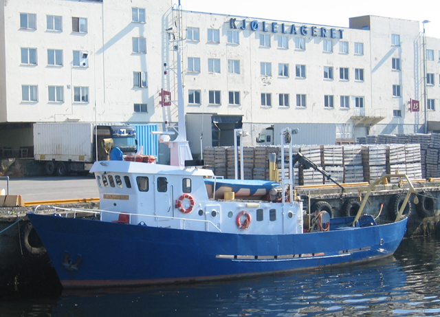 Research vessel